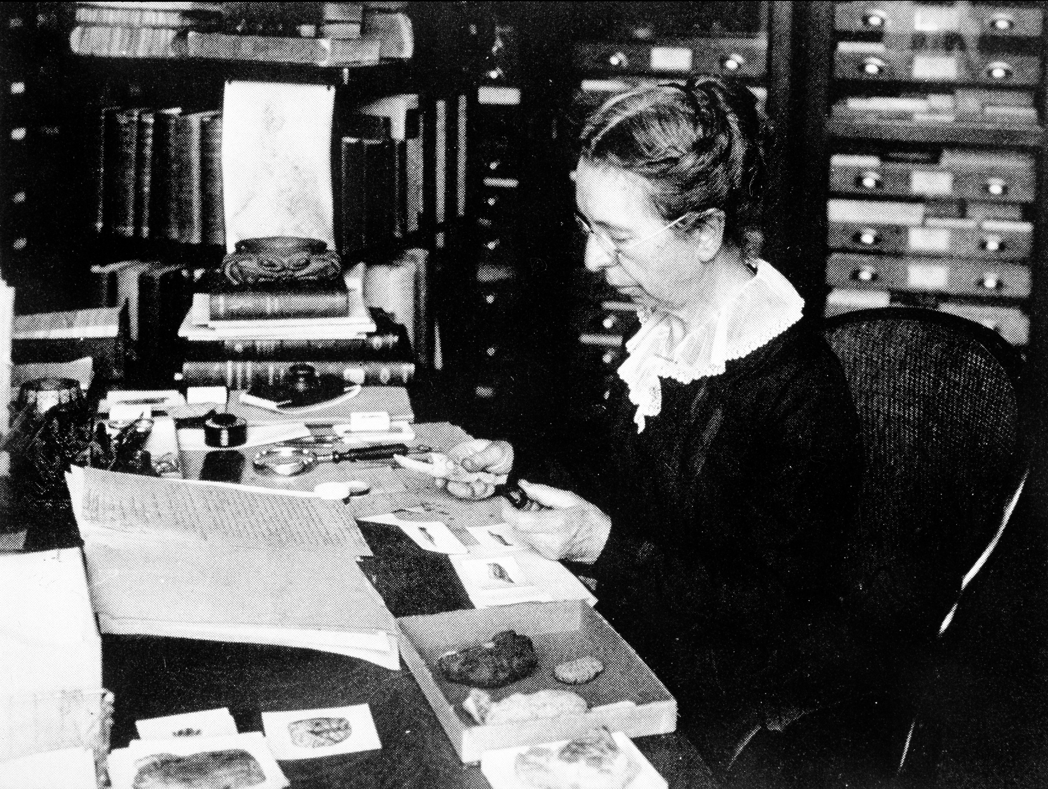 Description: Mary Jane Rathbun (1860-1943) worked for the United States Fish Commission and later at the United States National Museum in the Department of Marine Invertebrates. She began her work as an unpaid assistant to her brother, Richard Rathbun, and was later able to secure a museum position. Rathbun's primary zoological interest was the study of crustacea, particularly the crabs, both recent and fossil. Creator/Photographer: Unidentified photographer Medium: Black and white photographic print Persistent URL: [1] Repository: Smithsonian Institution Archives Accession number: SIA2009-0710